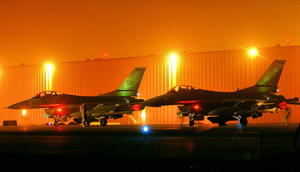 F-16 Fighting Falcons wait on the "hot ramp" at a forward-deployed location while maintenance crews ready the weapons for a night mission March 21. 2003 during Operation Iraqui Freedom